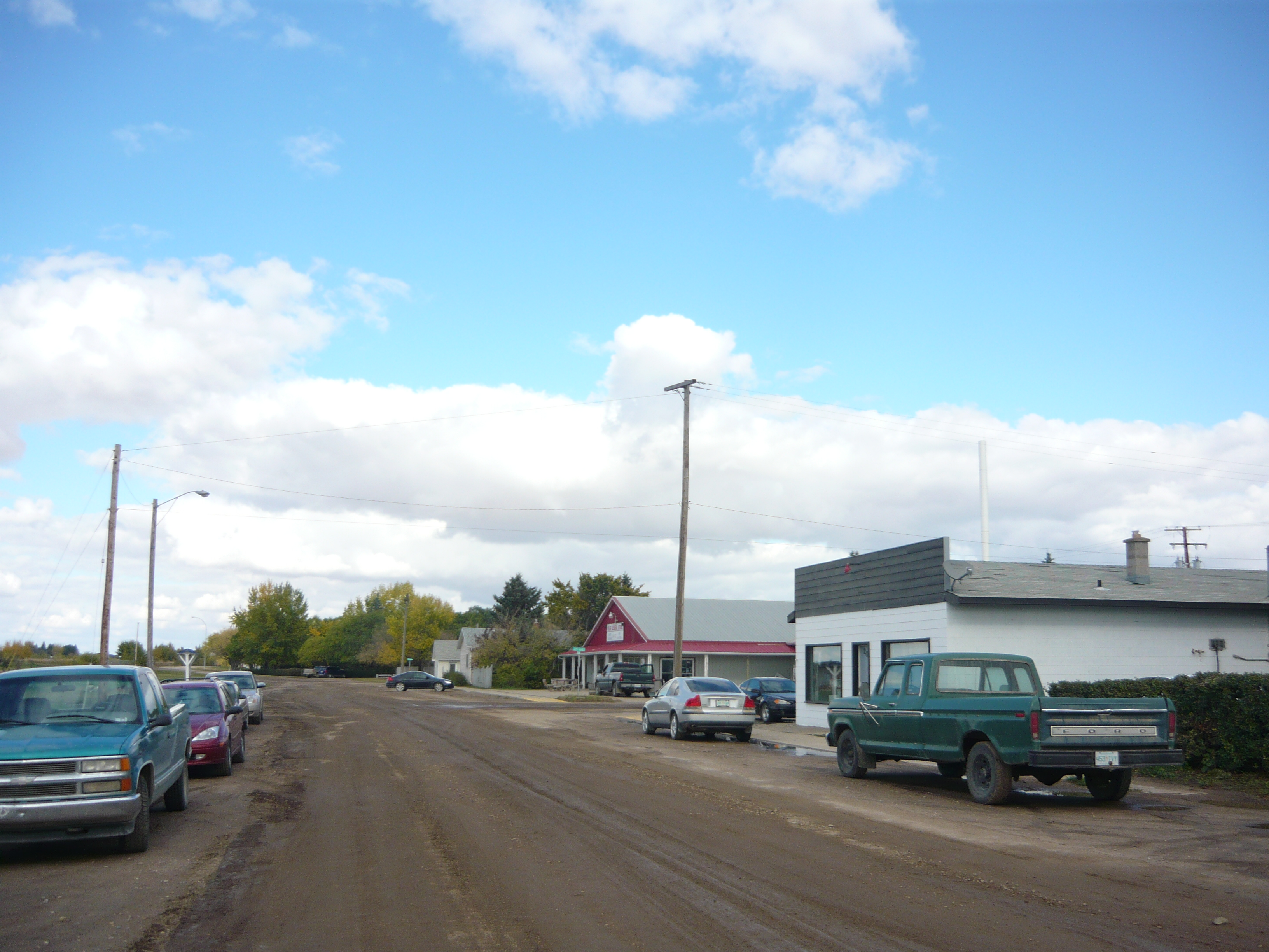 Town of Osler, Saskatchewan, Canada. View northward on First Street from Third Avenue. Red building on center-right is Osler General Store.